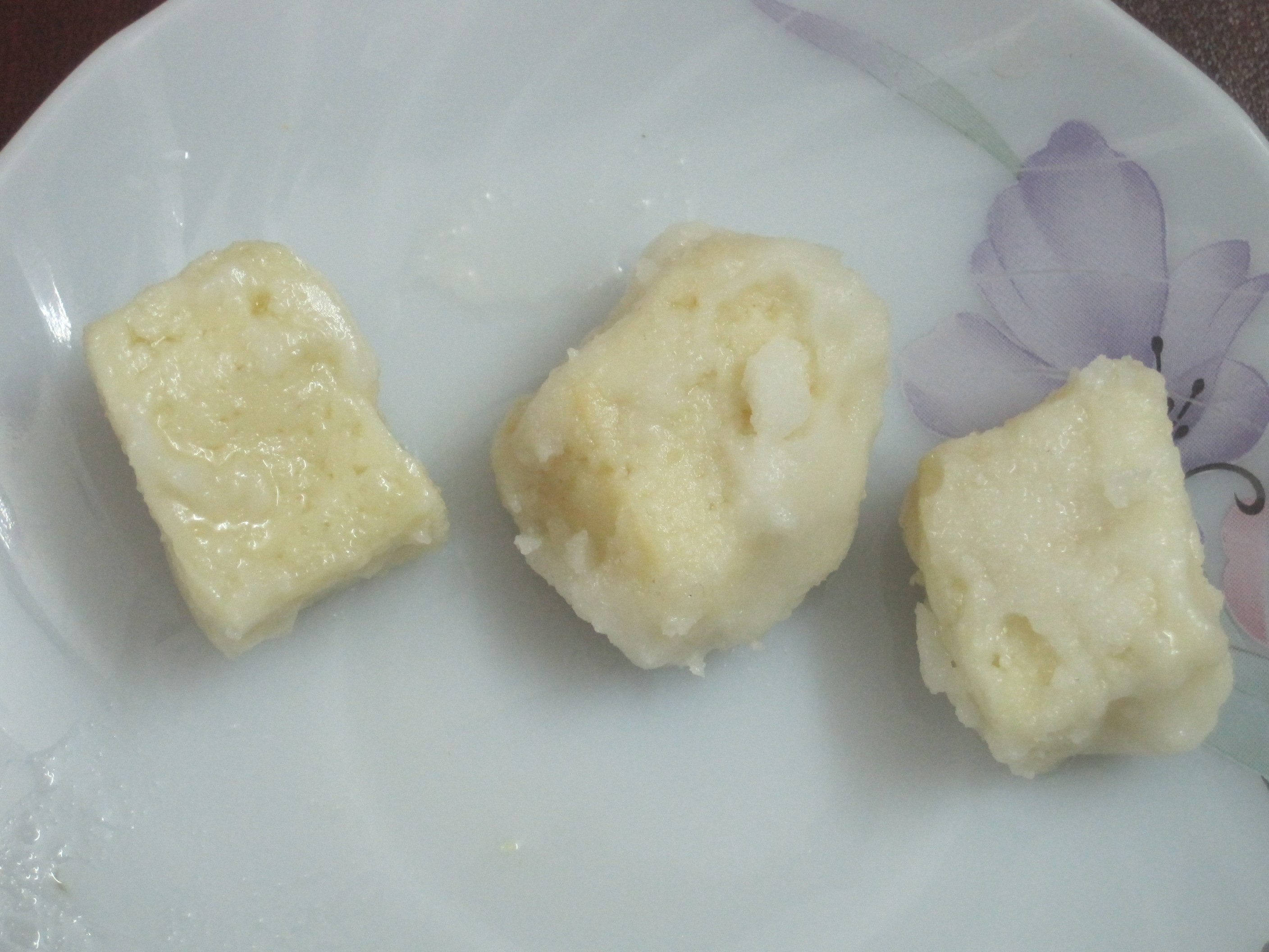 Chanamukhi, Sweetmeat of Bangladesh.